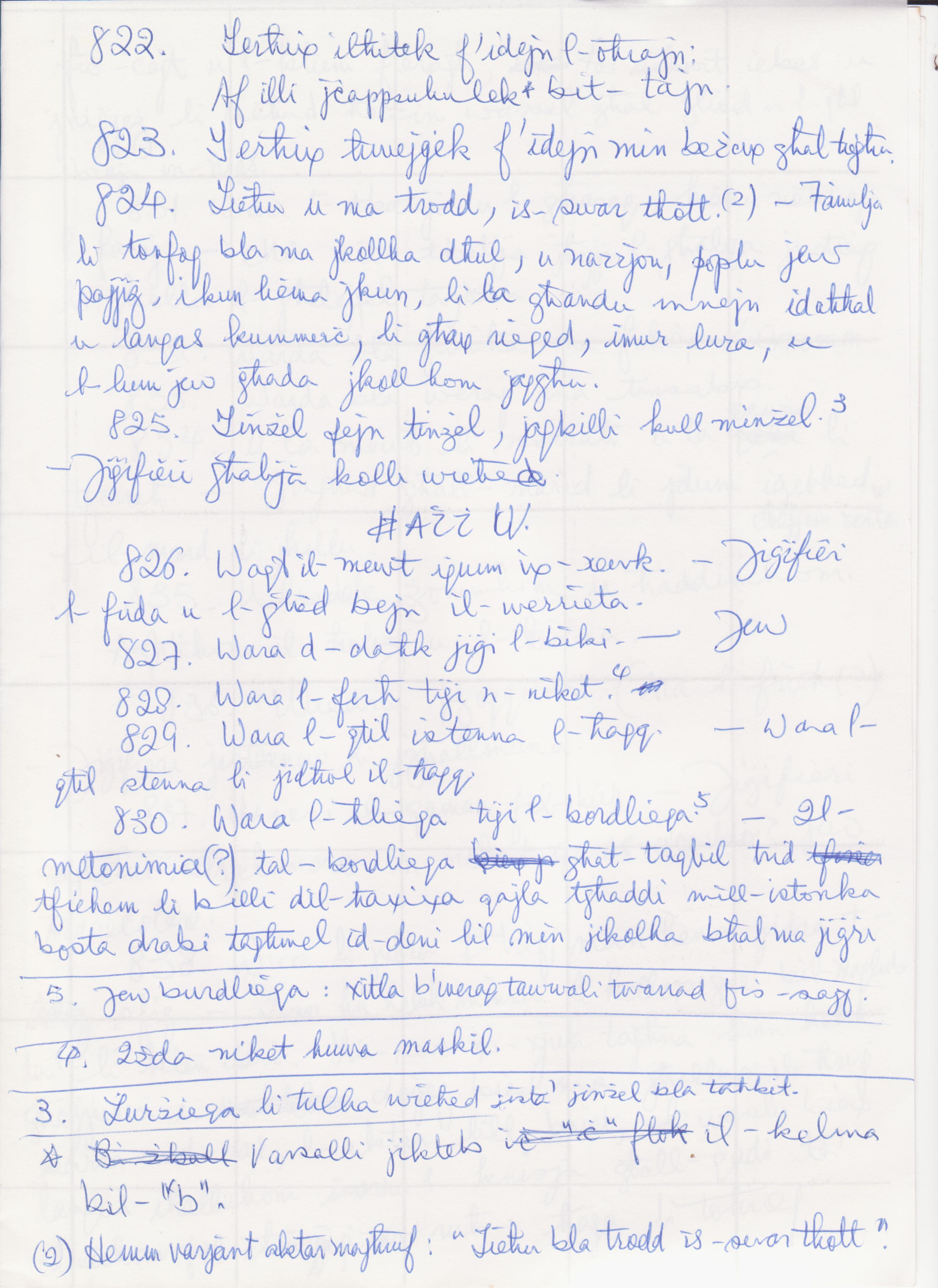 This is a sheet from the manuscript of my father's (Frans Sammut) book Ghajdun il-Ghaqal